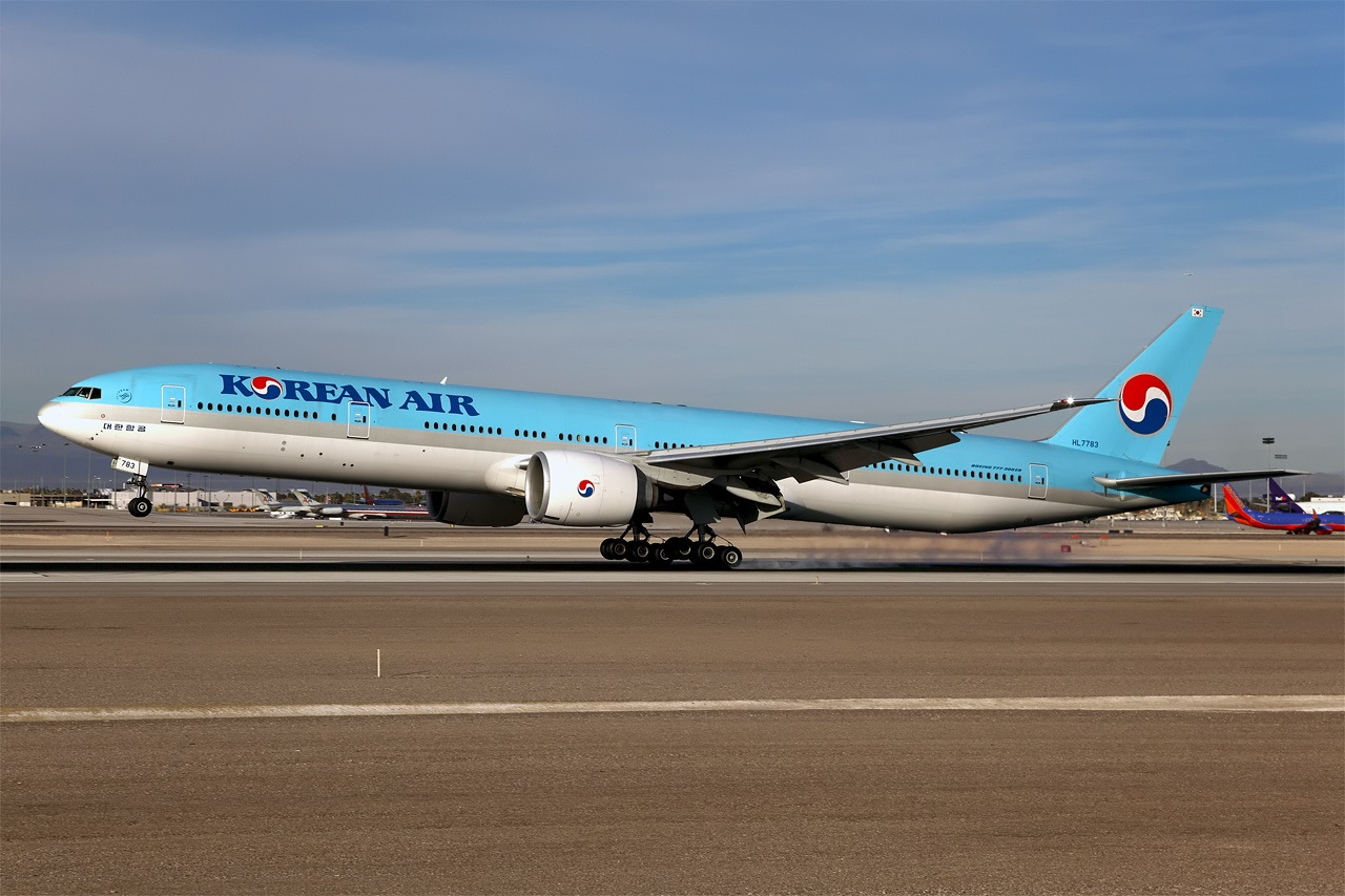 Korean Air Boeing 777-300ER, registered HL7783, arriving at McCarran Intl Airport, Las Vegas. Operating flight #5 from Seoul-Incheon.